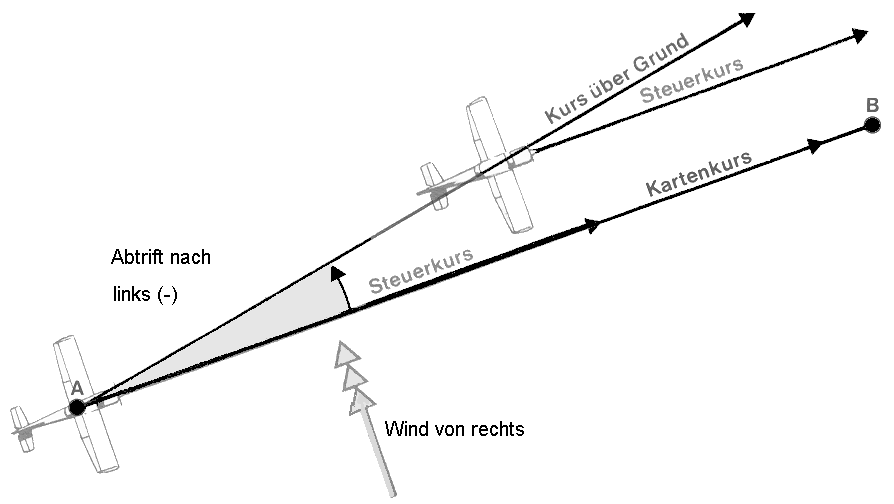 Leeway